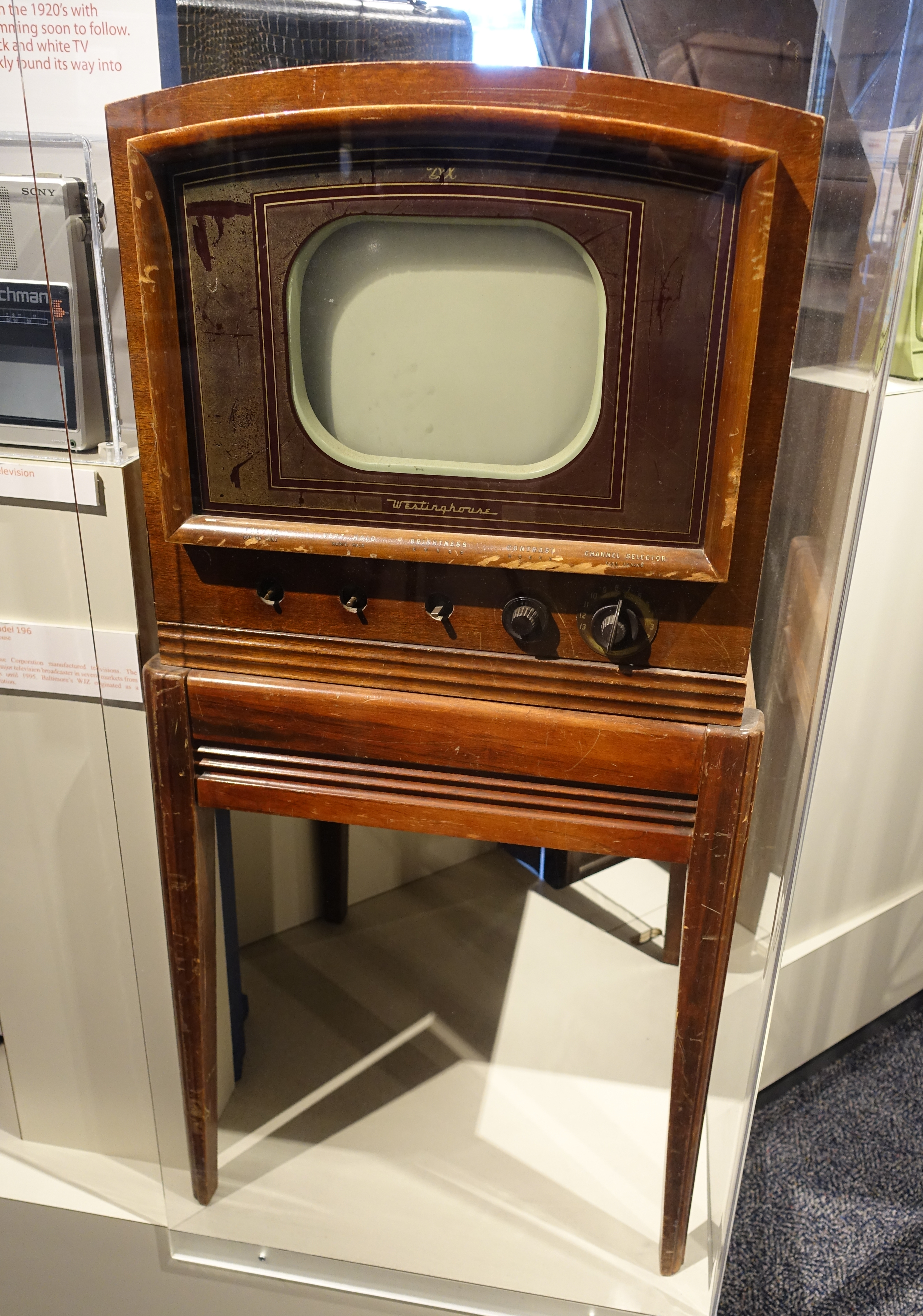 Exhibit in the National Electronics Museum, 1745 West Nursery Road, Linthicum, Maryland, USA. All items in this museum are unclassified. The museum permitted photography without restriction.